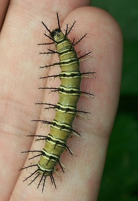 Telchinia esebria larva from Athlone Park, Amanzimtoti, South Africa.